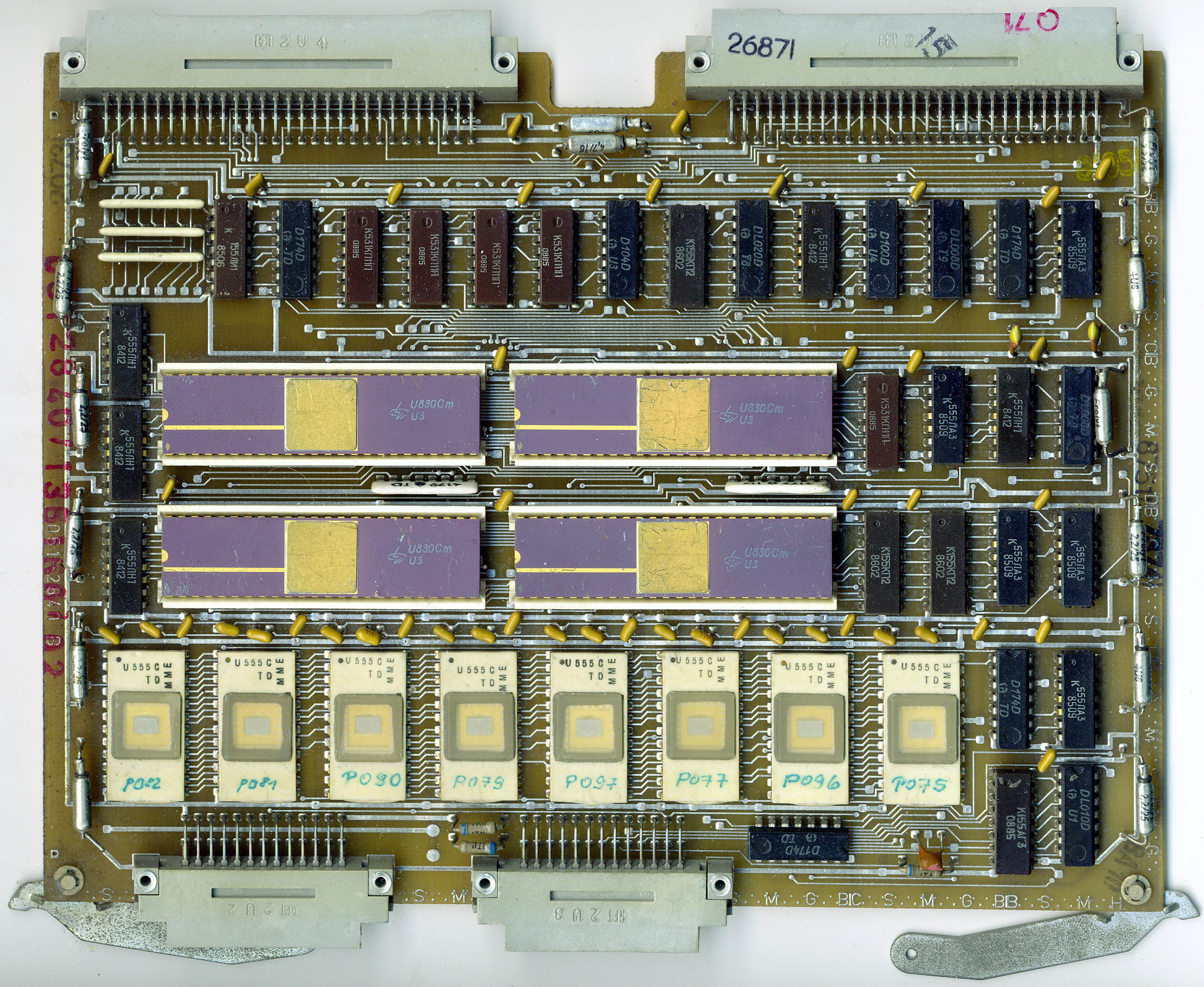 K 1630 (PDP11-Clone), CPU-Board ZVE K 2664, with 4 x U830C Bit-Slice